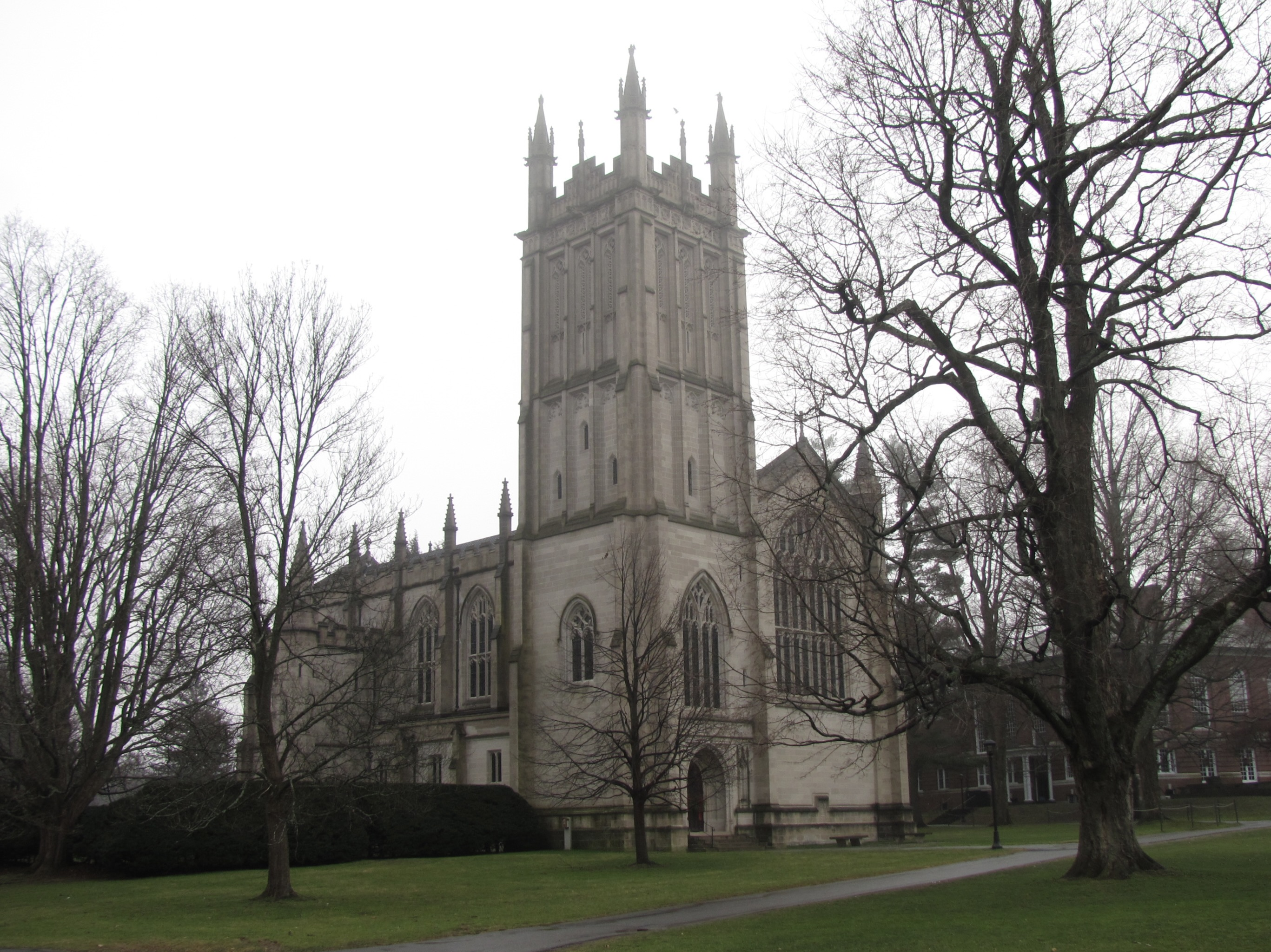 St. John's Chapel, Groton School, Groton Massachusetts